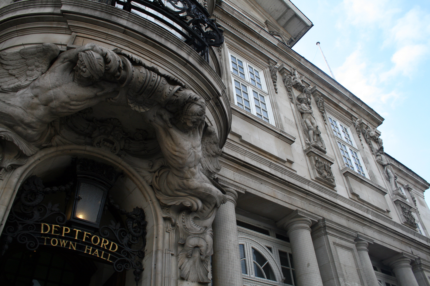 Deptford Town Hall Building at Goldsmiths, University of London